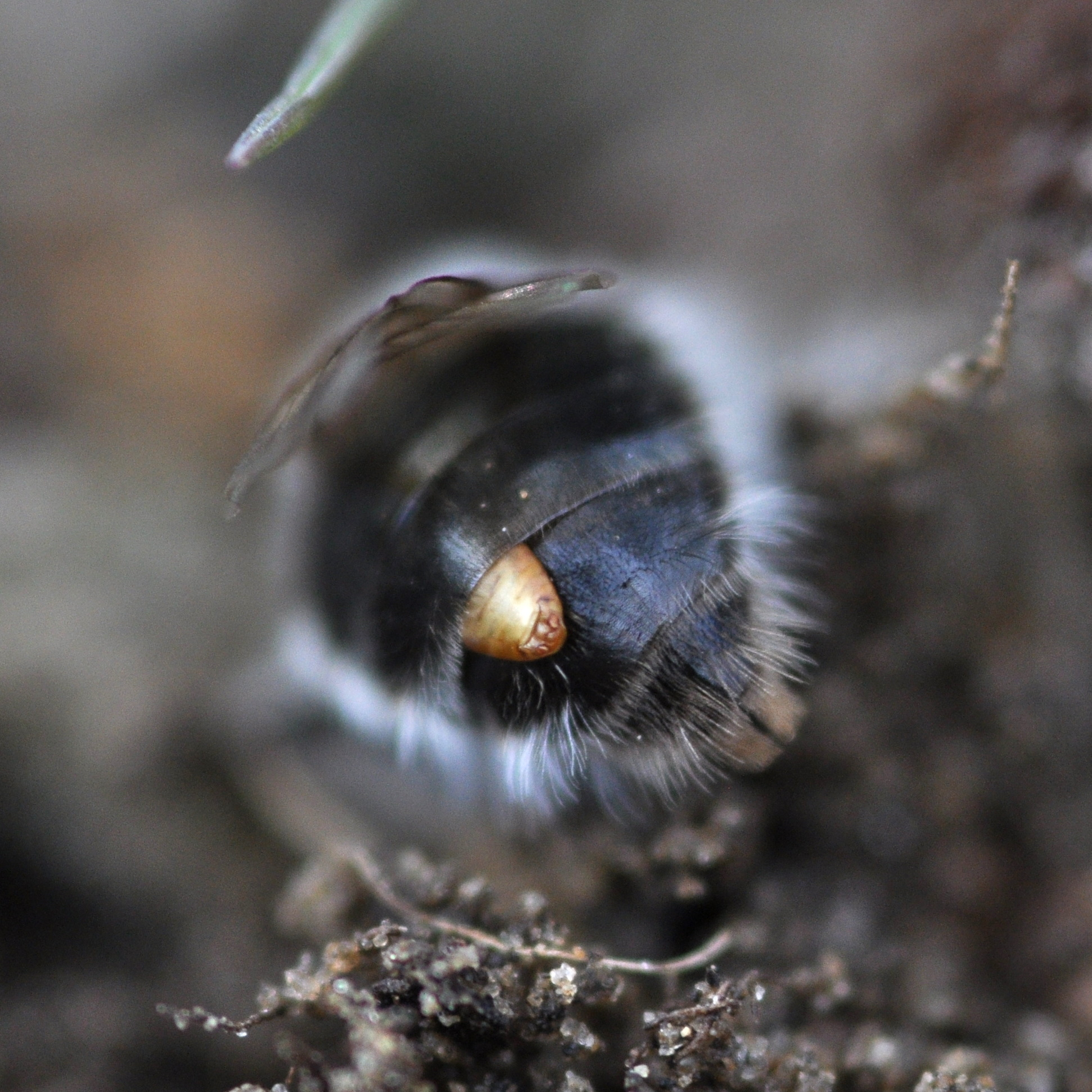 Twisted-winged parasite Stylops melittae female in 'Andrena vaga in Bahrenfeld, Hamburg.